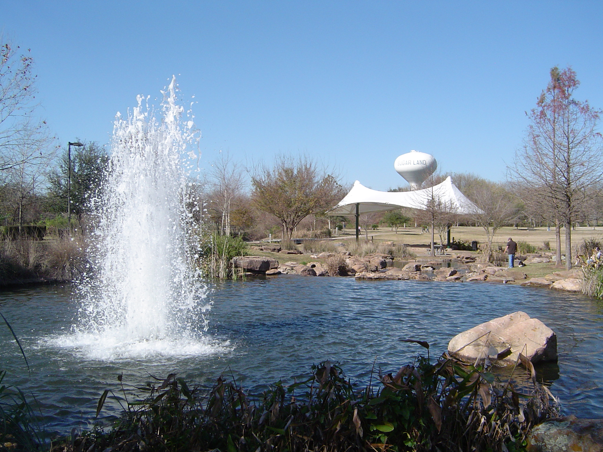 The fountain/water tower at Oyster Creek Park off of Highway 6.